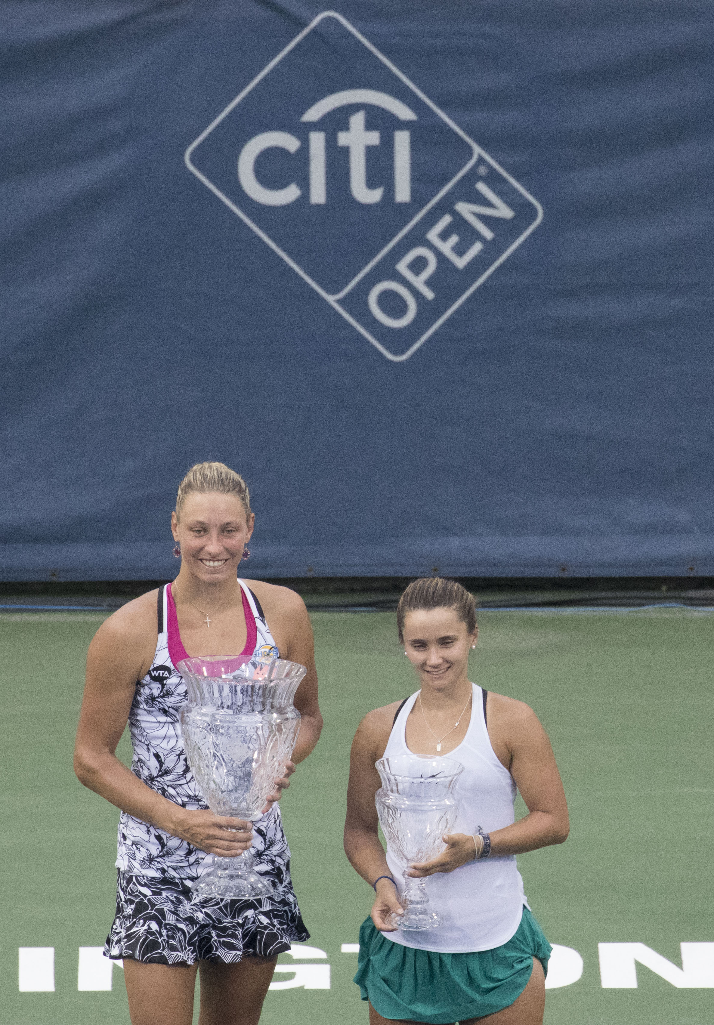 Yanina Wickmayer of Belgium (L) with Lauren Davis of the United States (R) after their match in a women's singles final of the Citi Open at Rock Creek Park Tennis Center. Wickmayer won 6-4, 6-2.